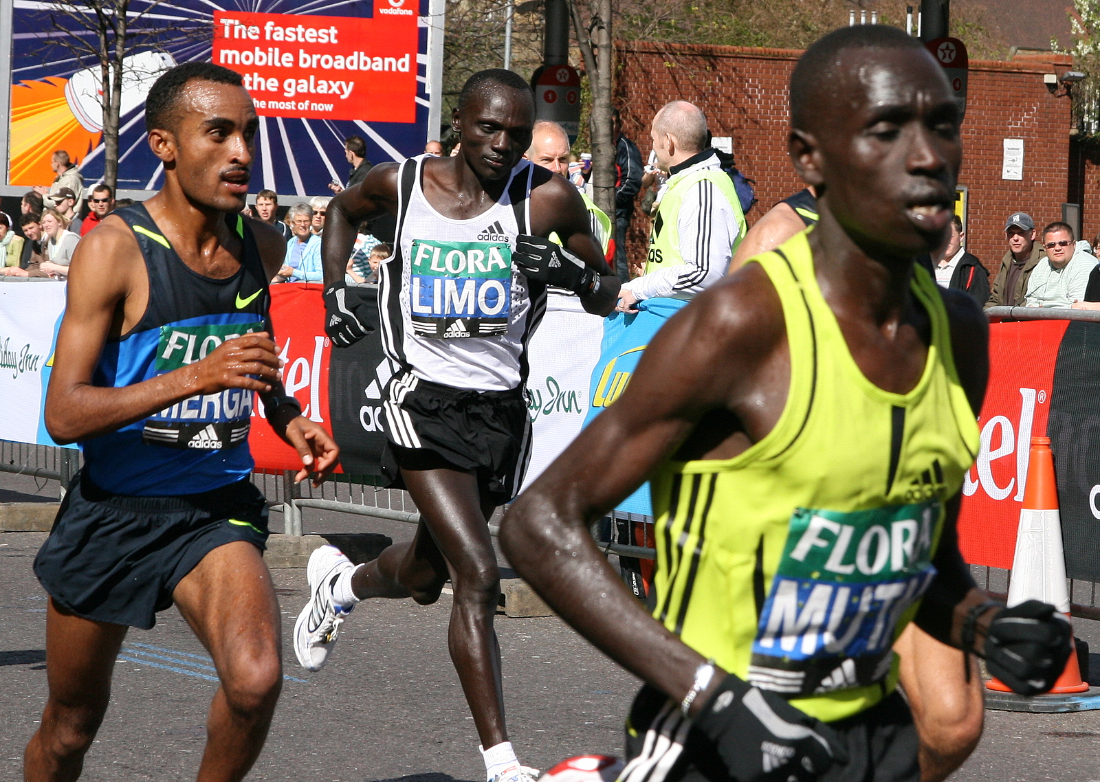 Felix Limo (center) in 2008 London Marathon